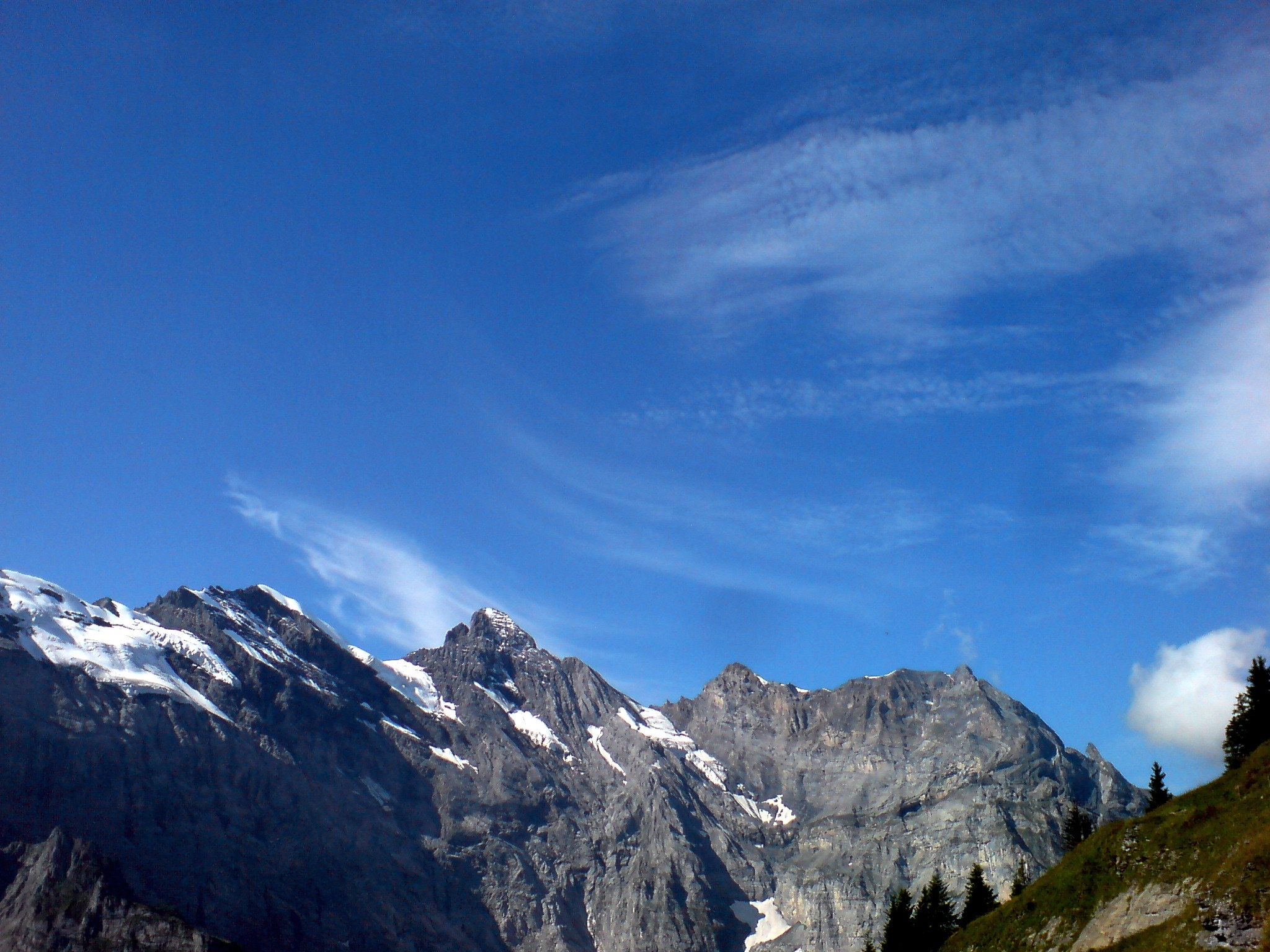 Tschingelspitz, Gspaltenhorn and Bütlasse seen from west